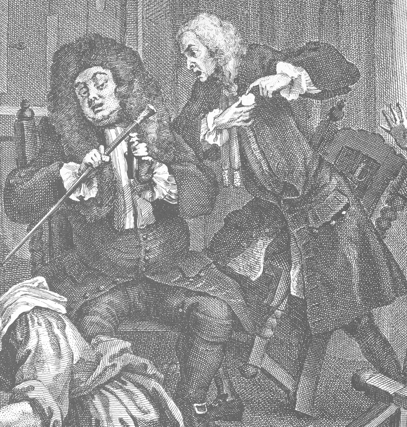 John Misaubin (right) argues with Dr. Richard Rock in William Hogarth's 1732 A Harlot's Progress, plate 5.